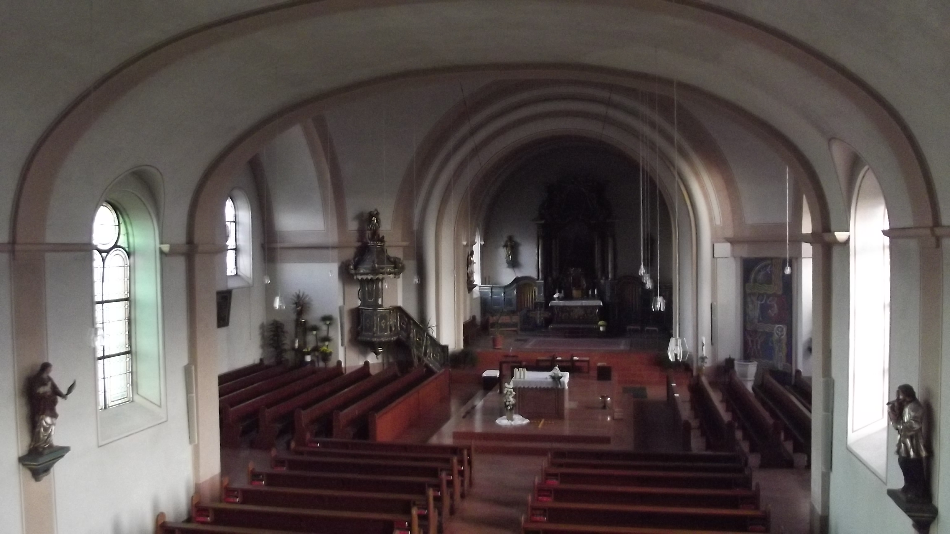 Interior of the roman catholic church in Wahlen, Saarland